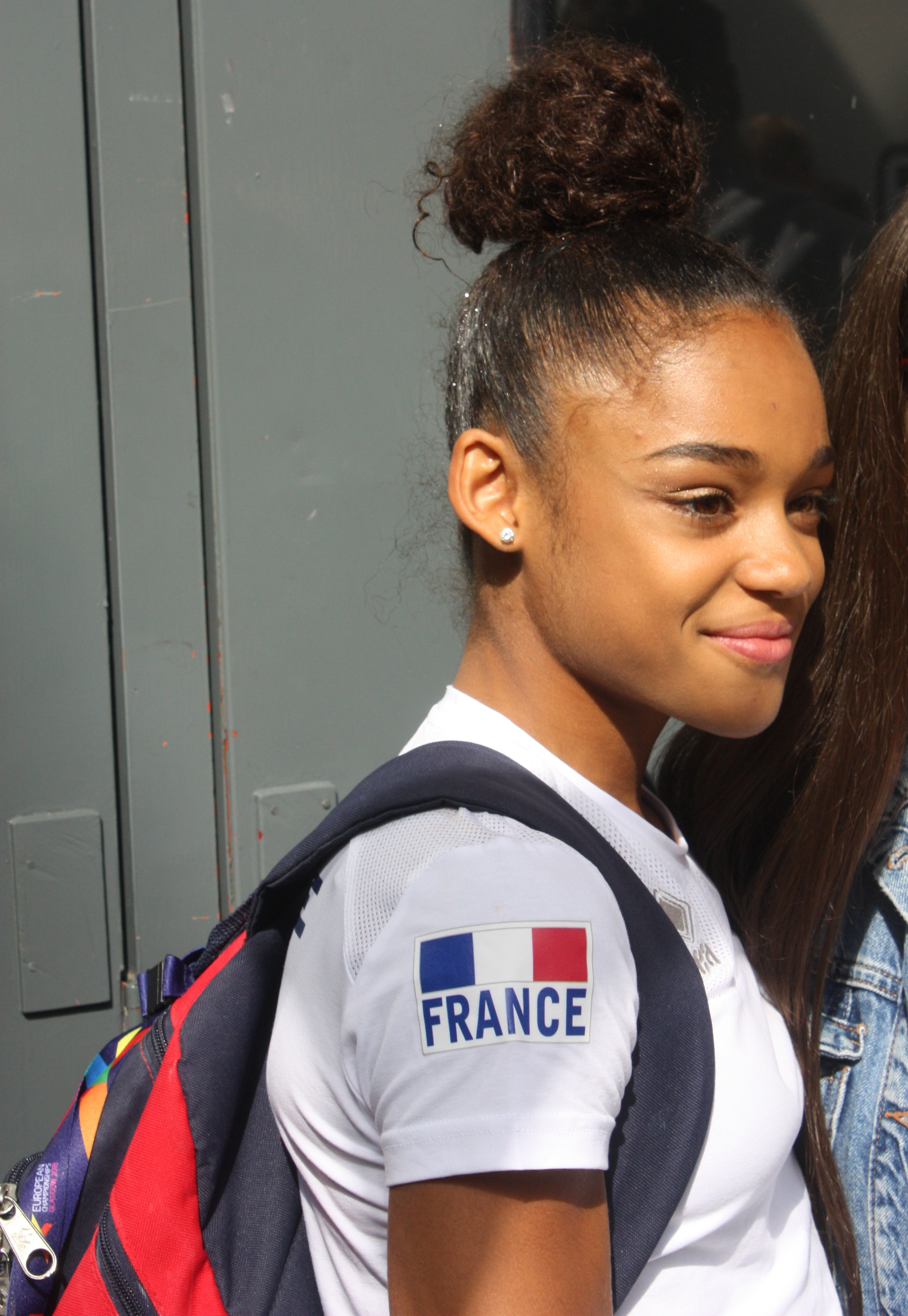 Mélanie de Jesus dos Santos after her team silver medal at the 2018 European Championships in Glasgow.